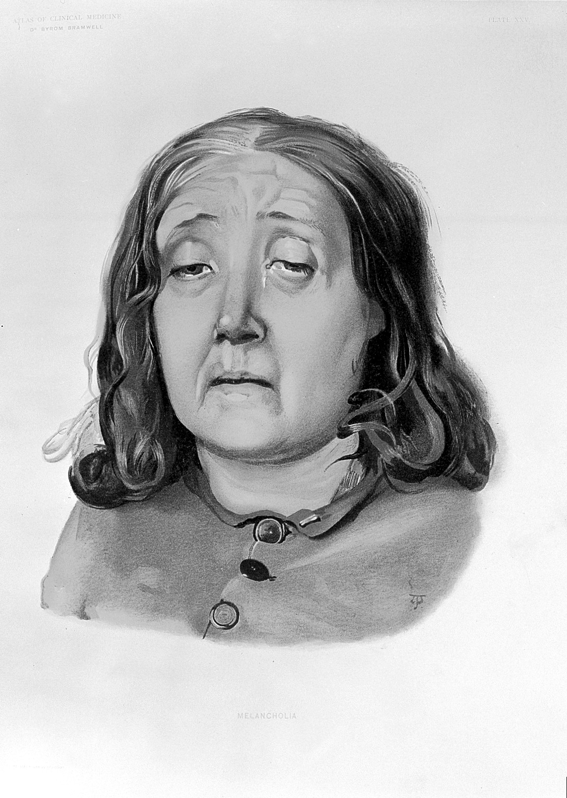 "Melancholia". General Collections Keywords: Byrom Bramwell